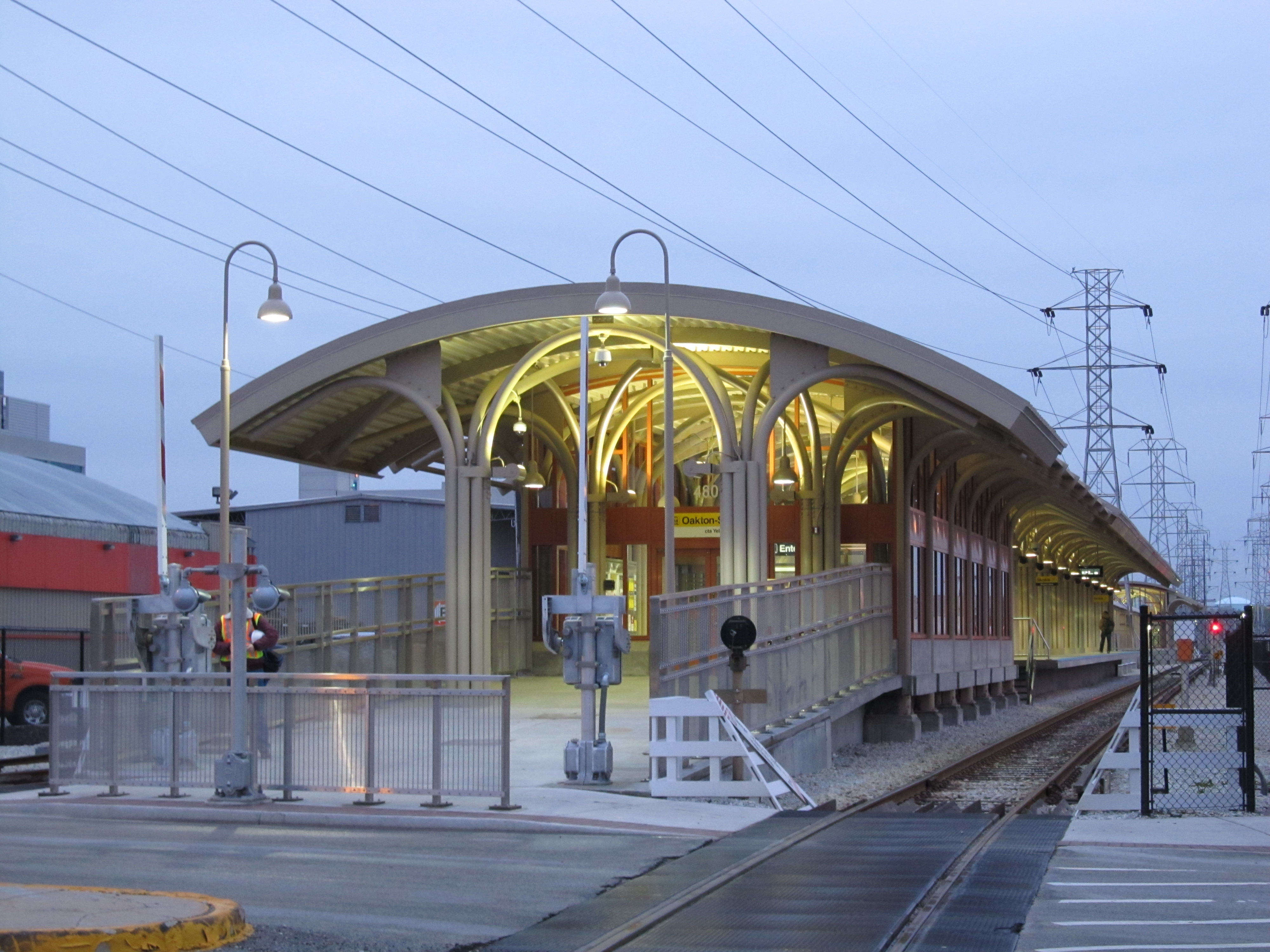 The Oakton-Skokie station on the Chicago Transit Authority's Yellow Line, in Skokie, Illinois